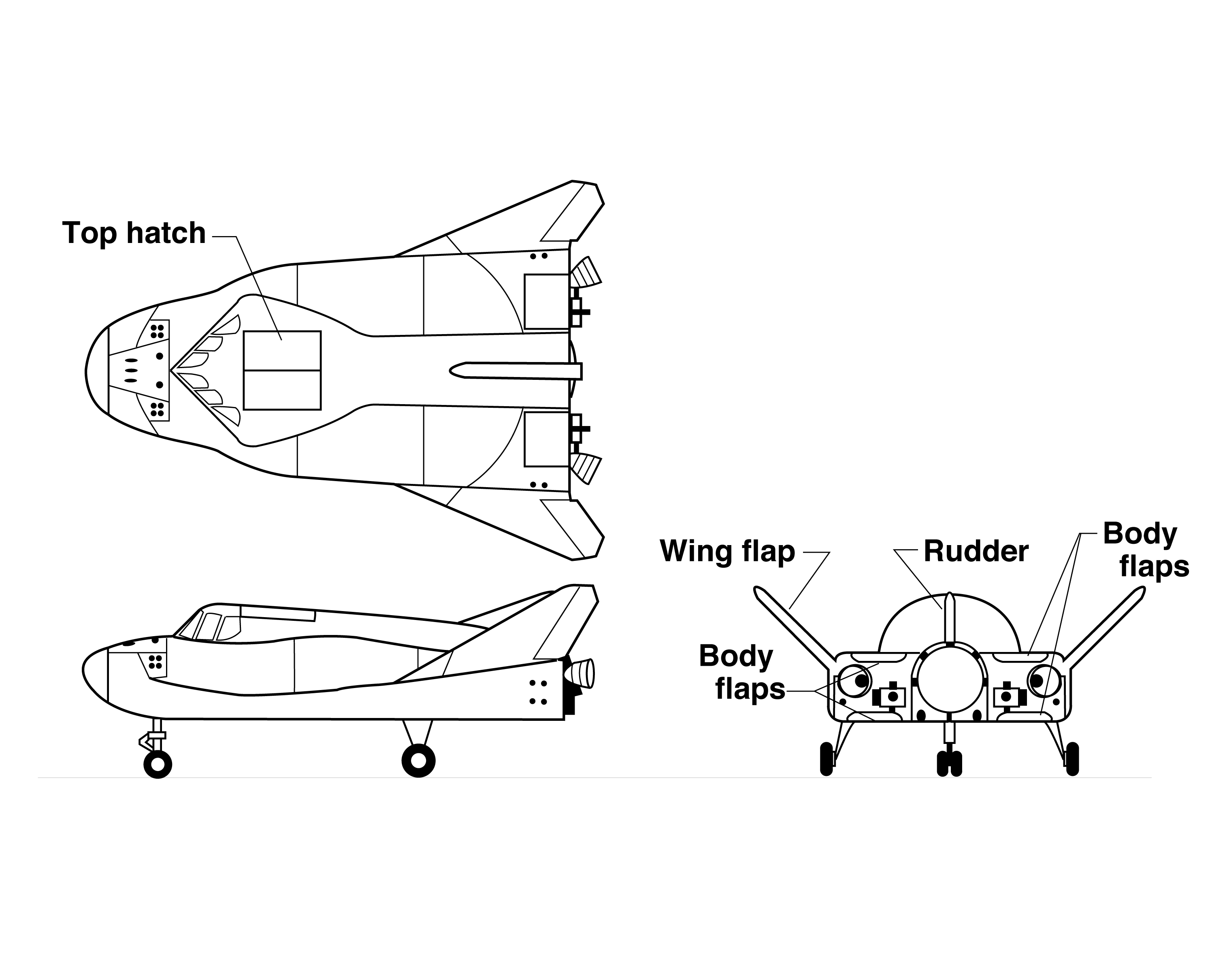 HL-20 3-View line art